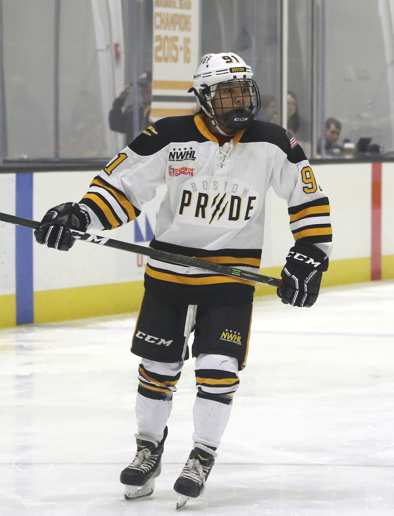 Rachel Llanes playing for the Boston Pride in the 2016-2017 NWHL season